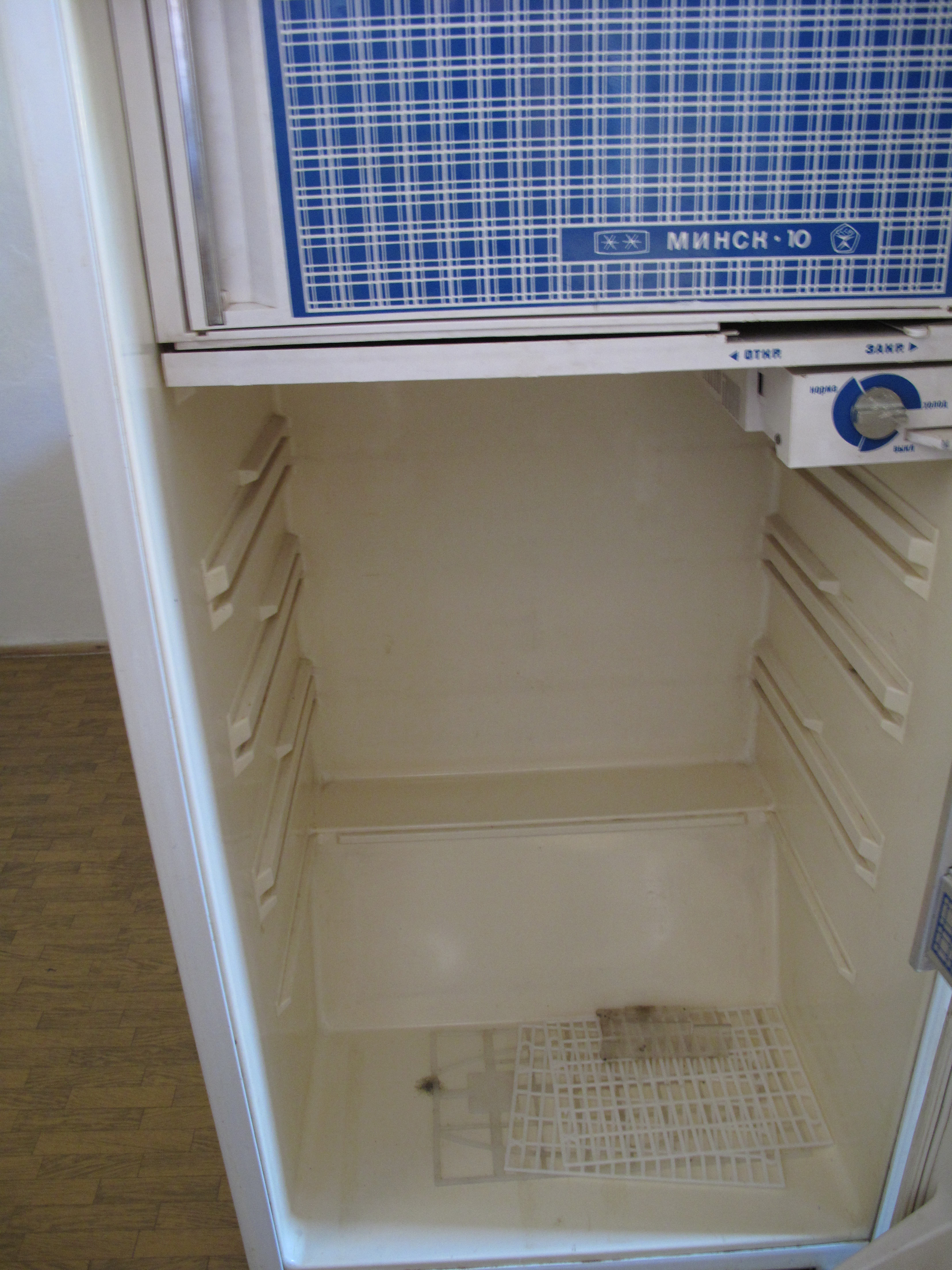 Minsk 10 fridge inside. Made approximatelly in 1980.